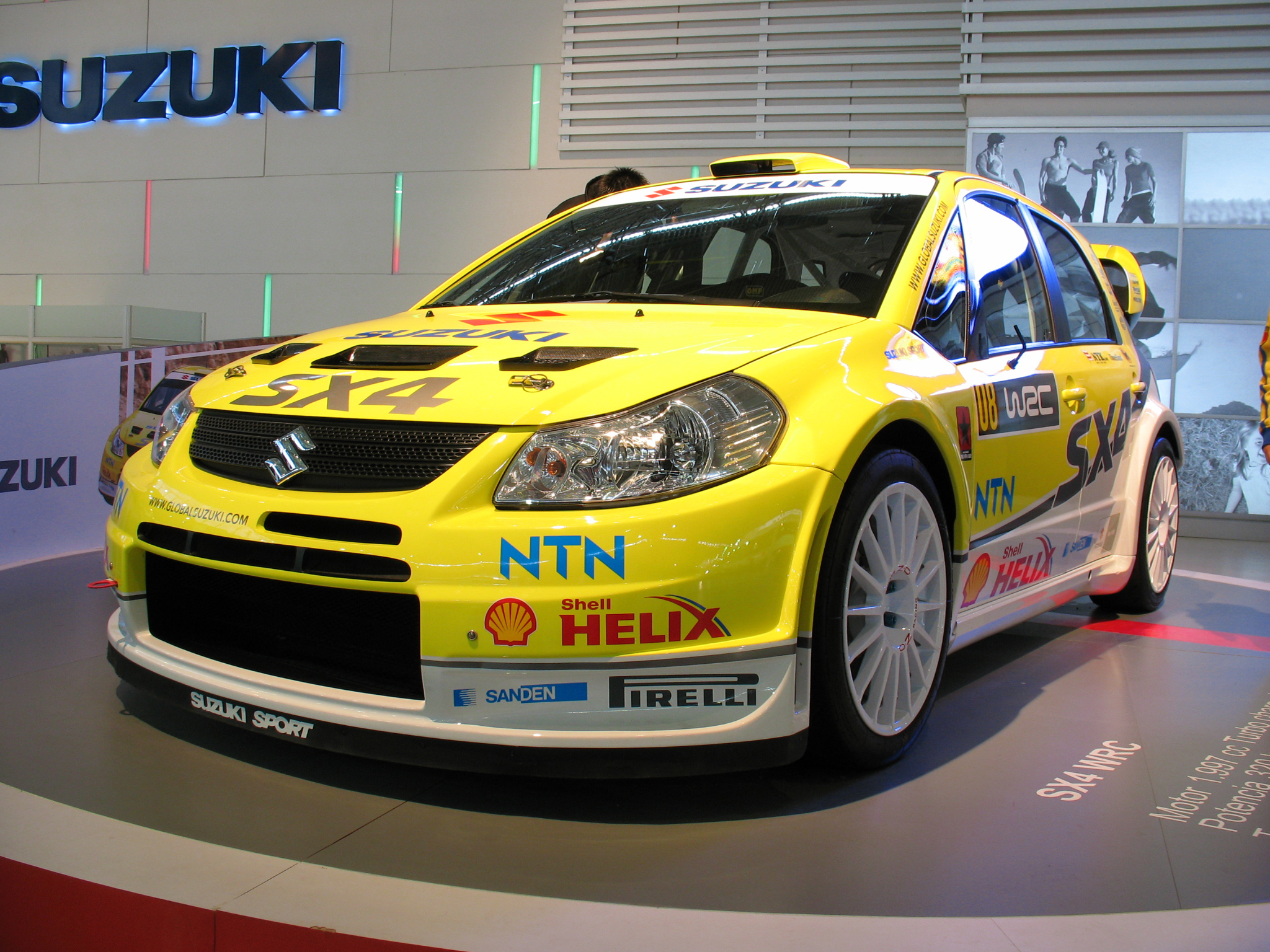 Sport Xover 4 seasons